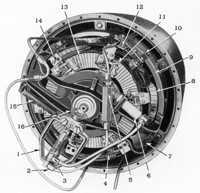 Mark 18 torpedo's electric motor, forward end, April 1943. 1-Governor. 2-Oil lead from reservoir. 3-Oil lead to power piston. 4-Connector rings. 5-Oil reservoir. 6-Power piston. 7-Front end bracket. 8-Field coil. 9-Frame. 10-Lead clamp and bracket. 11-Positive terminal. 12-Negative terminal. 13-Commutator. 14-Brushholder assembly. 15-Spring. 16-Bevel gears.